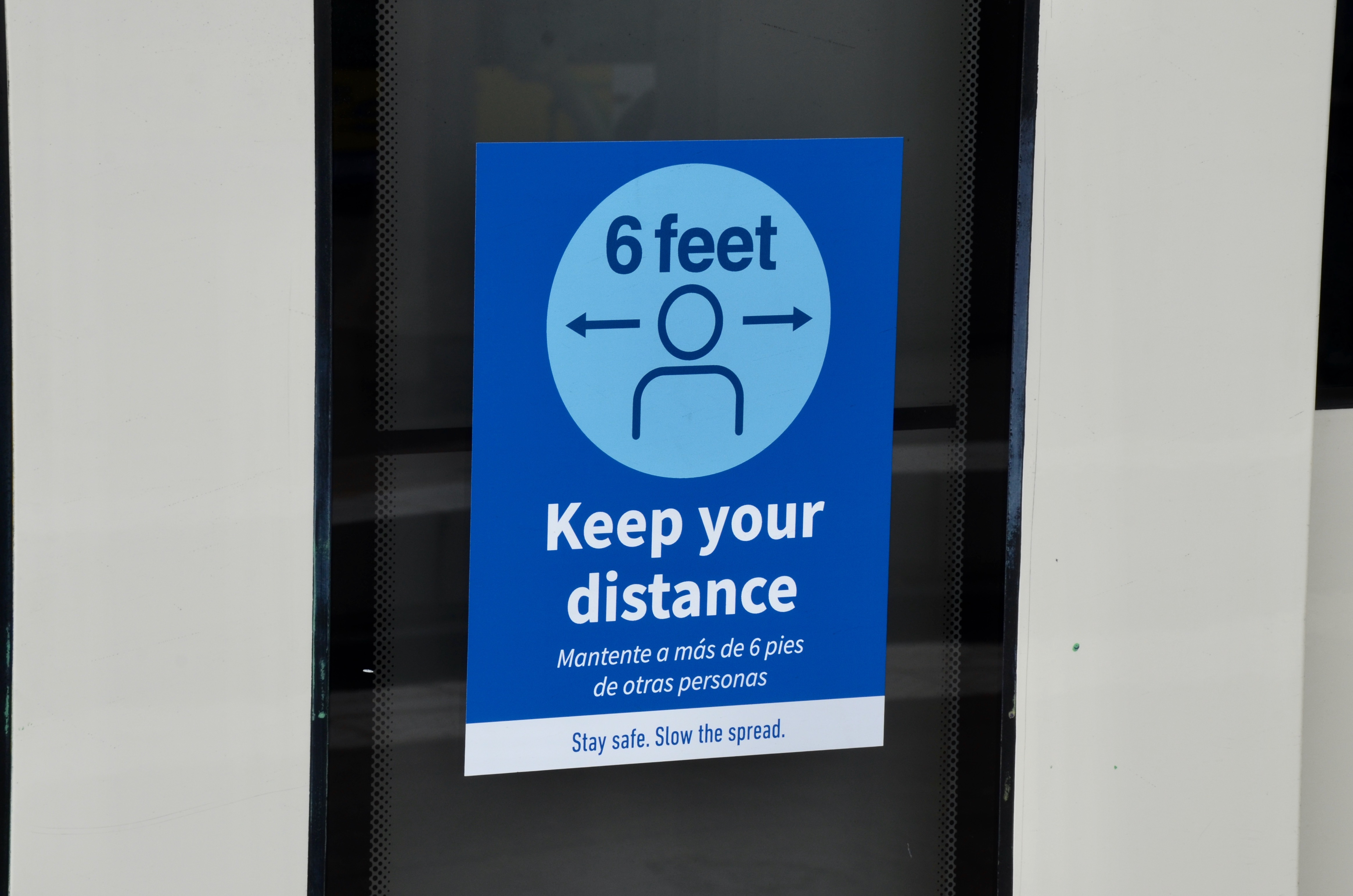 "Keep your distance: 6 feet" sticker on the glass of a door of a TriMet MAX Light Rail car (in the Portland, Oregon, metropolitan area) intended to encourage physical-distancing on board among transit riders during the 2020 coronavirus pandemic. The message is also given in Spanish.